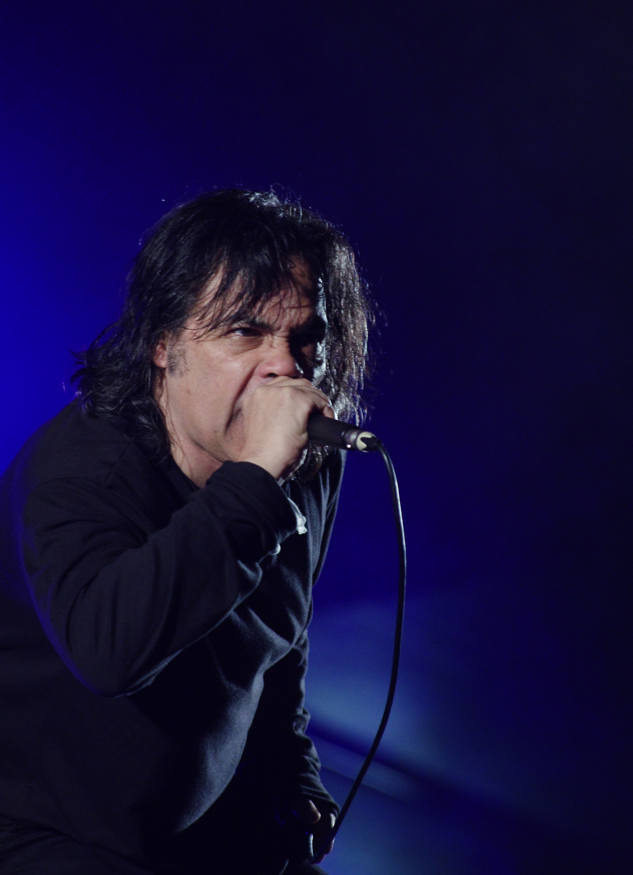 Ron Reyes (voc) of Black Flag at Ruhrpott Rodeo 2013 in Hünxe, Germany.